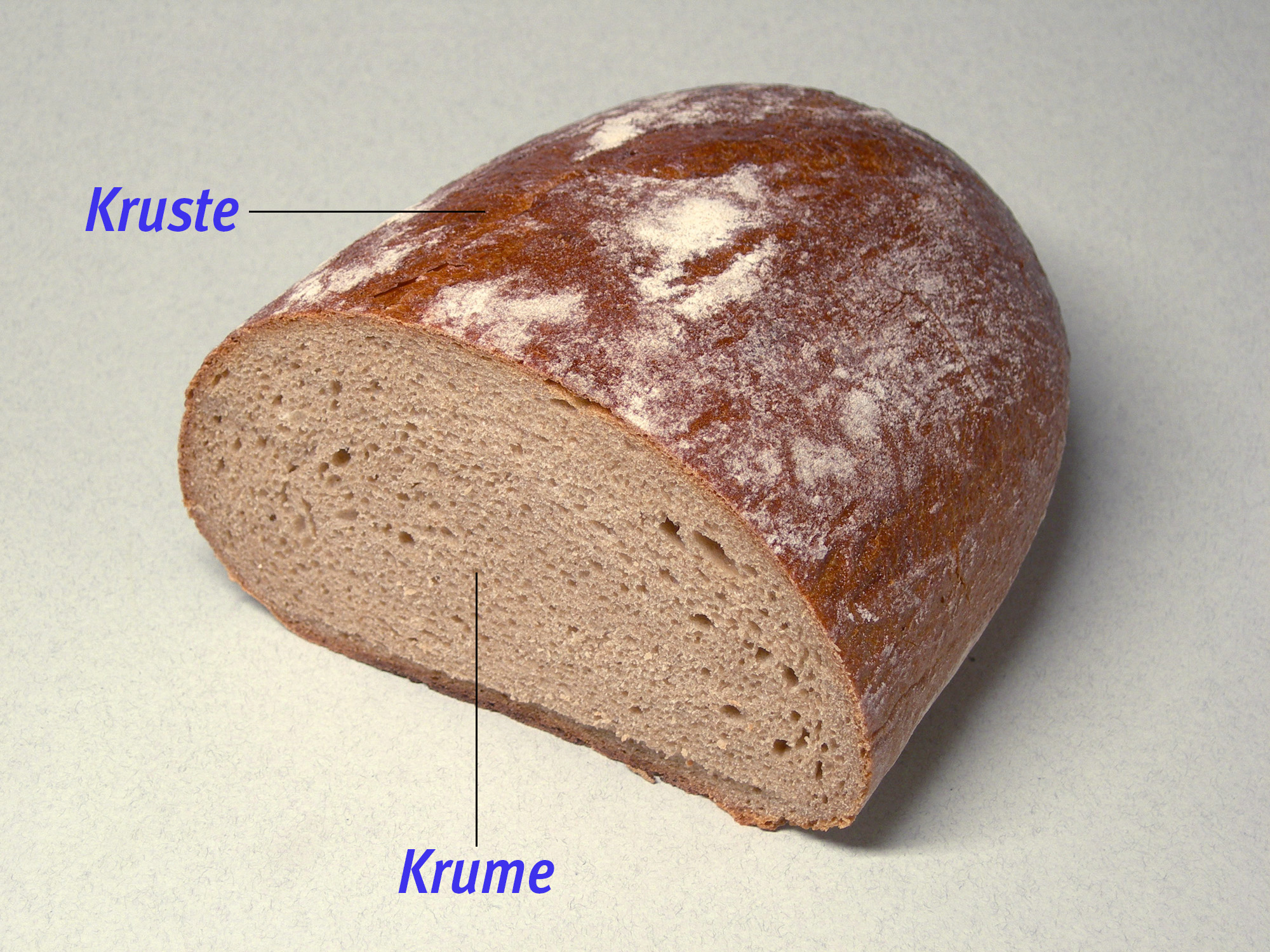 Difference between crumb and crust